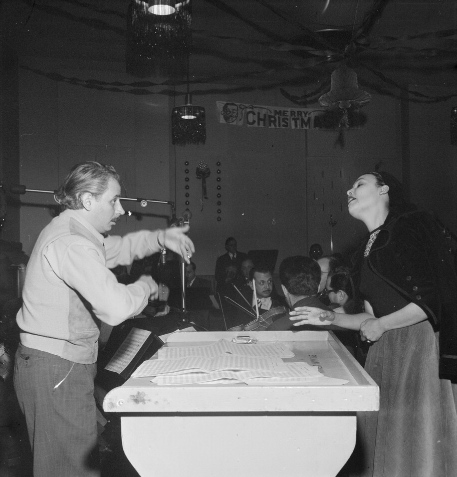 Gottlieb, William P., 1917-, photographer. [Portrait of Lena Horne and Lennie Hayton, New York, N.Y., between 1946 and 1948] 1 negative : b&w ; 2 1/4 x 2 1/4 in. Notes: Gottlieb Collection Assignment No. 143 Purchase William P. Gottlieb Forms part of: William P. Gottlieb Collection (Library of Congress). Subjects: Horne, Lena Hayton, Lennie, 1908-1971 Women jazz musicians--1940-1950. Jazz singers--1940-1950. Conductors (Music)--1940-1950. Format: Portrait photographs--1940-1950. Group portraits--1940-1950. Film negatives--1940-1950. Rights Info: Mr. Gottlieb has dedicated these works to the public domain, but rights of privacy and publicity may apply. Repository: (negative) Library of Congress, Prints & Photographs Division, Washington D.C. 20540 USA, Part Of: William P. Gottlieb Collection (DLC) 99-401005 General information about the Gottlieb Collection is available at Persistent URL: Call Number: LC-GLB23- 1245 This work is from the William P. Gottlieb collection at the Library of Congress. Rights and restrictions.In accordance with the wishes of William Gottlieb, the photographs in this collection entered into the public domain on February 16, 2010.